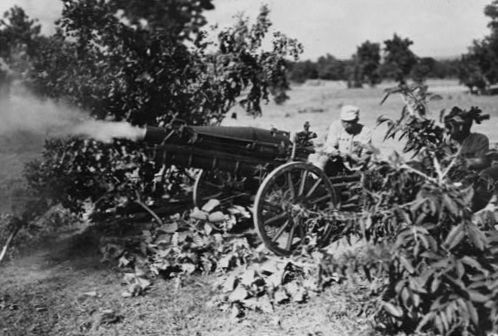 Chinese soldiers firing a 75 pack howitzer.